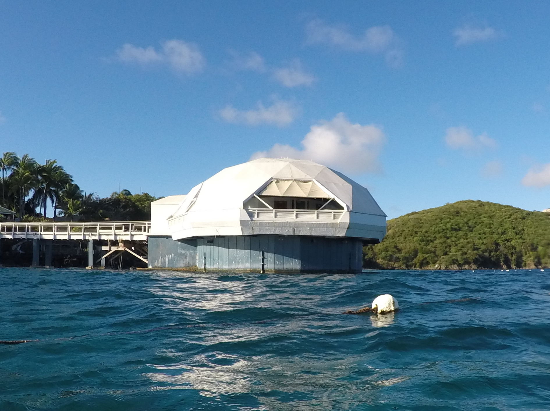 Undersea Observatory Tower, Coral World, St Thomas, USVI, Dec 2016.